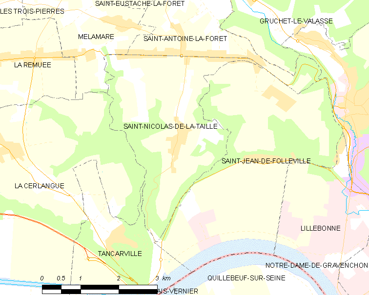 Map of French municipality Saint-Nicolas-de-la-Taille